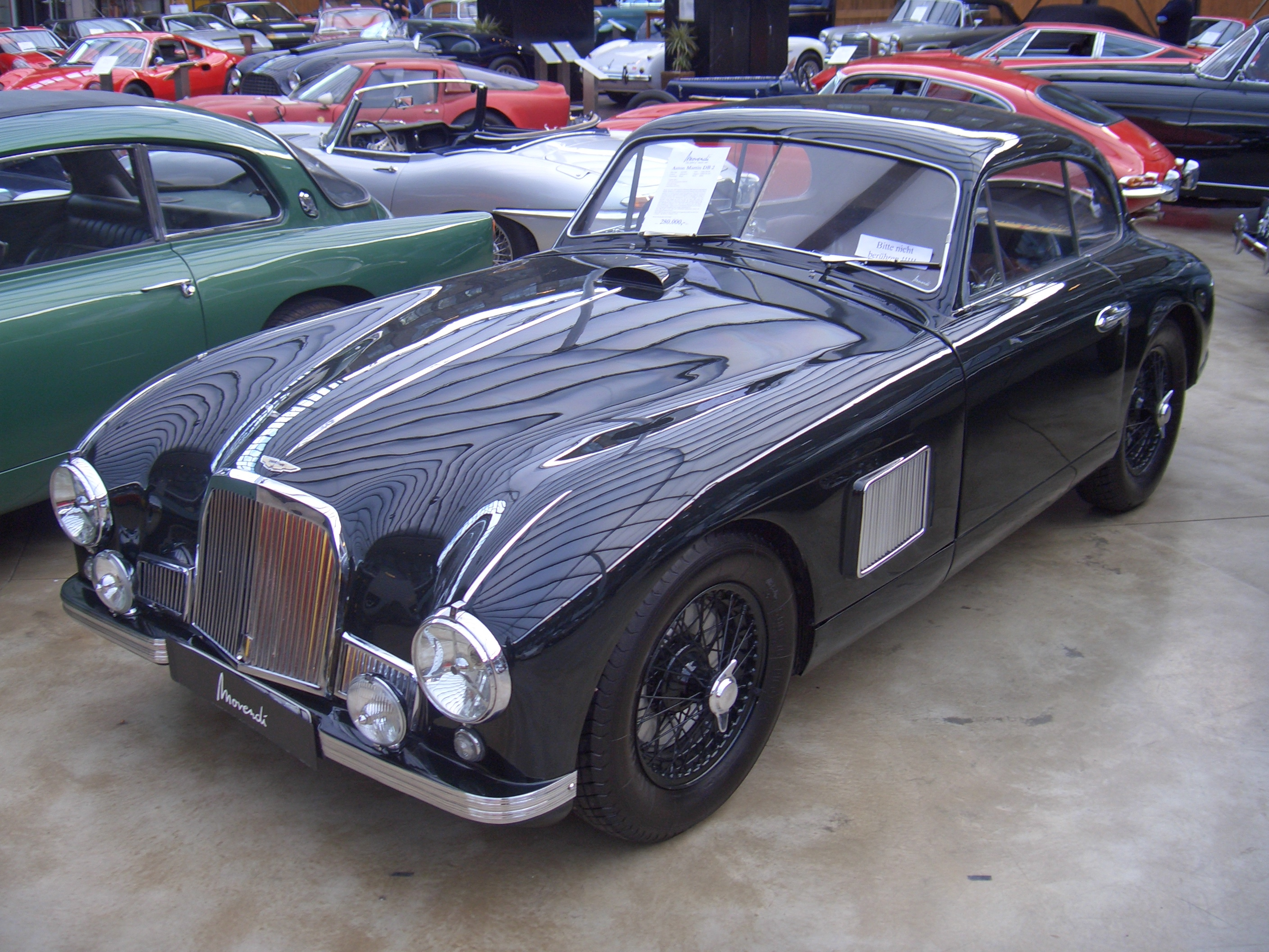 Aston Martin DB2, 1951, rare version with three-piece-grille, seen at CLASSIC REMISE, Düsseldorf, Germany